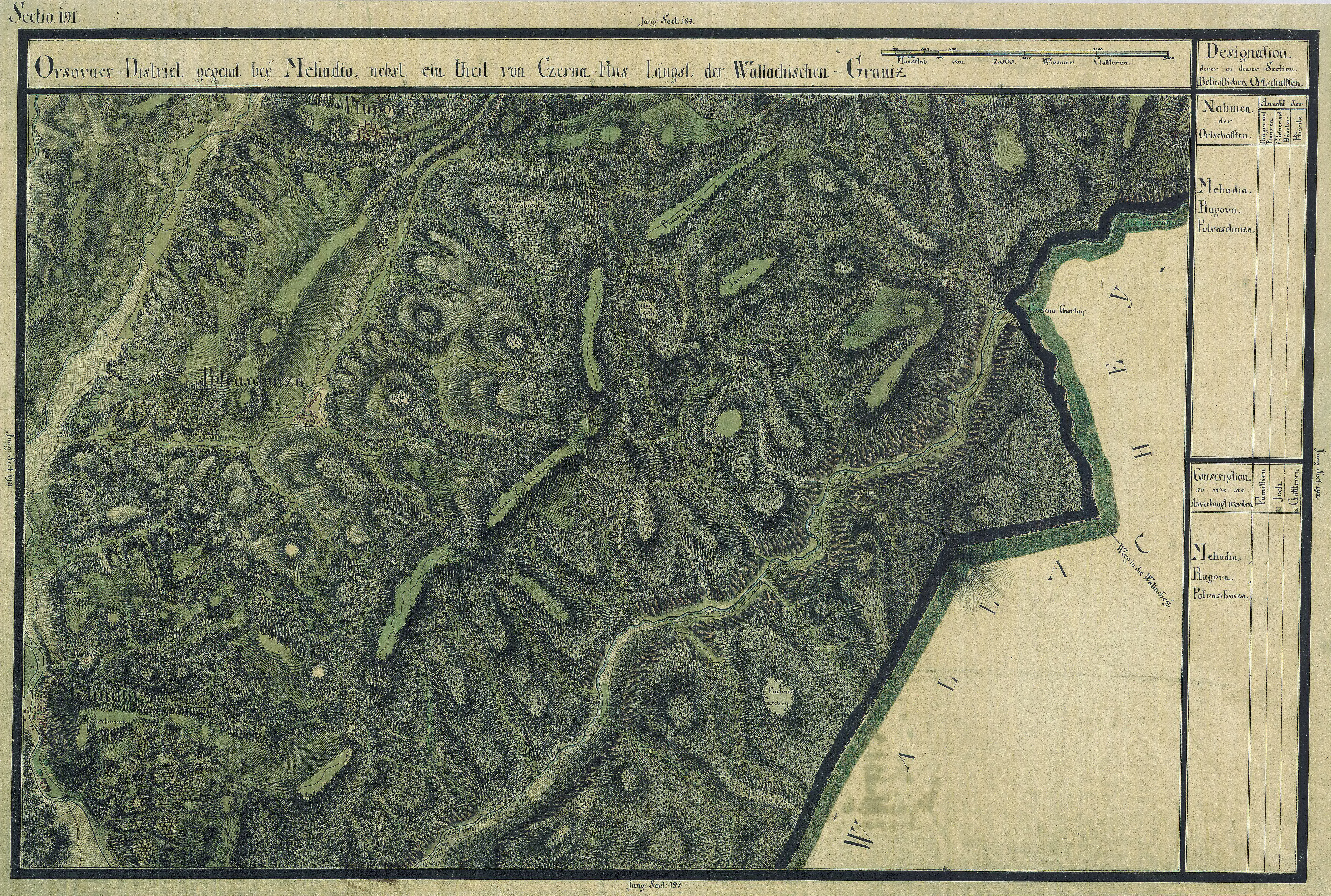 The Banat region in the cadastral maps: Josephinische Landesaufnahme, 1769-72. Josephinische Landaufnahme pg191